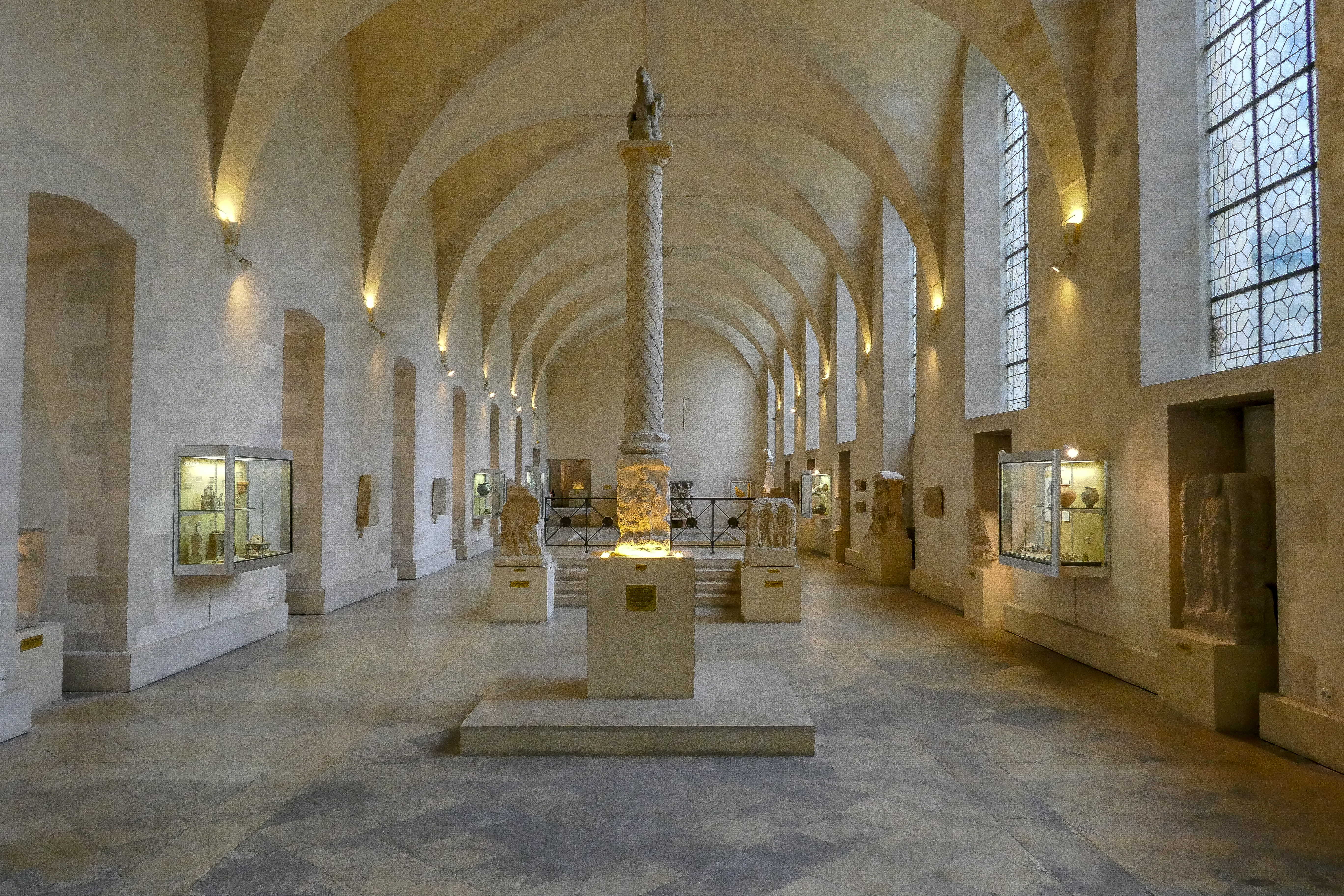 Hall in Saint-Remi Museum, Reims